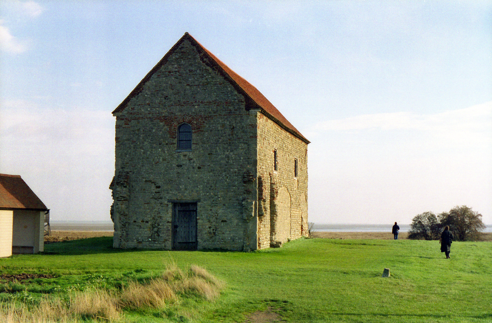 St. Peter-on-the-Wall, Bradwell On Sea (built 654), England